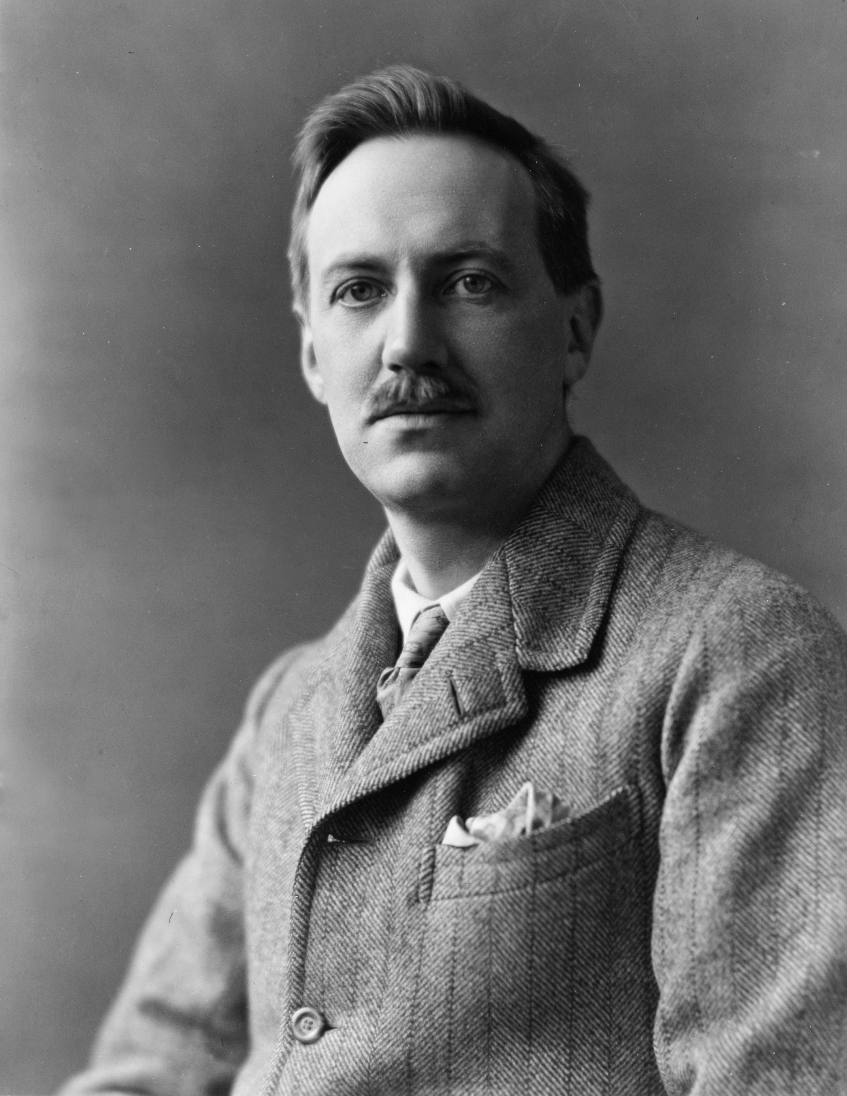 Title: Lord Edward John Moreton Drax Plunkett Dunsany, half-length portrait, facing slightly left Abstract/medium: 1 photographic print.